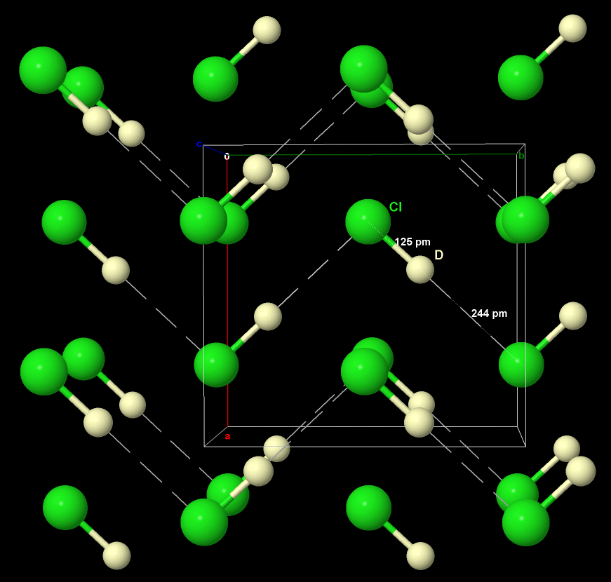 The structure of DCl, deuterium chloride, from neutron powder diffraction at 77 K. The box is the unit cell. Evidence indicates that HCl has the same structure as DCl. The zigzag chains of DCl are indicated by the dashed lines. Data from Sándor, E.; Farrow, R. F. C. (14 January 1967). "Crystal Structure of Solid Hydrogen Chloride and Deuterium Chloride". Nature 213: 171-172. The data was converted to a .cif file, loaded into Jmol, and saved as a .png file.